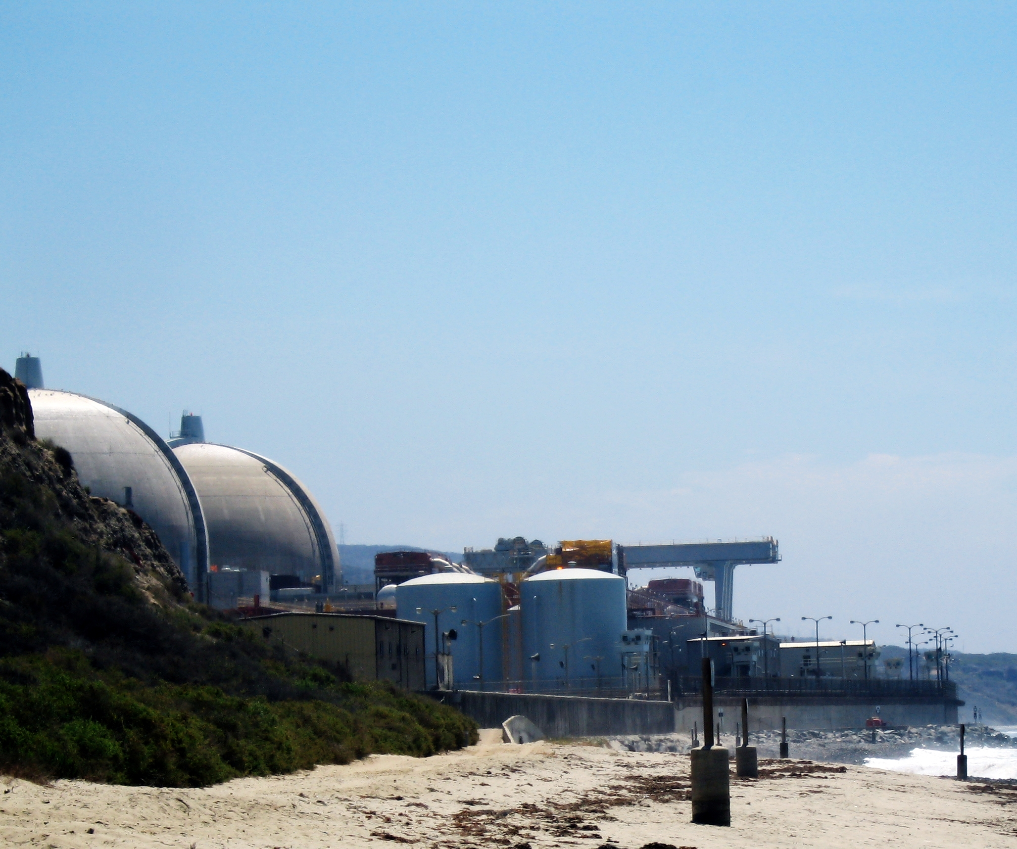 San Onofre Nuclear Generating Station (SONGS) in San Diego County, California, as seen from San Onofre Surf Beach to the north. SONGS divides San Onofre State Beach, with San Onofre Bluffs to the south and San Onofre Surf Beach to the north.